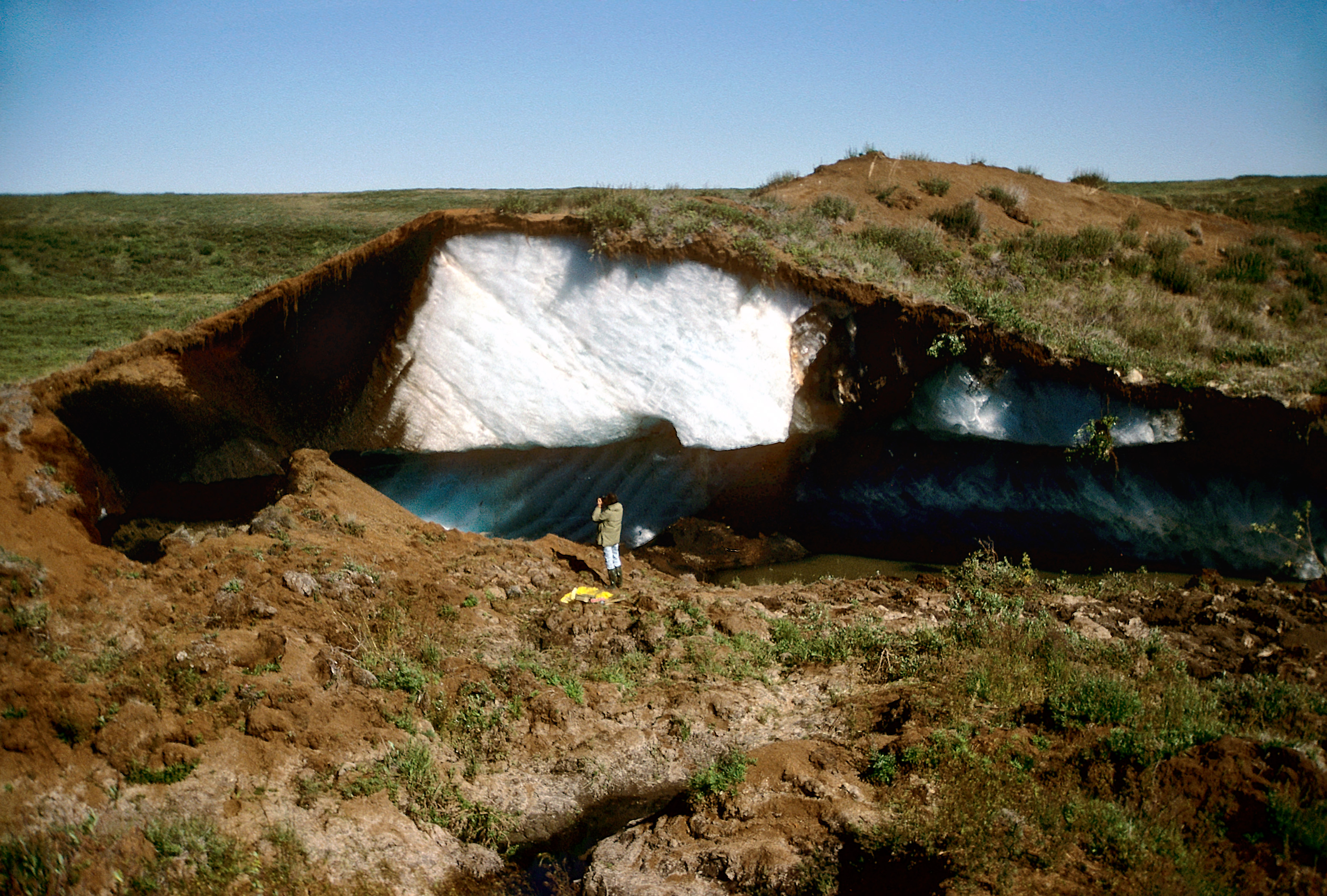 Detail of pingo in the Mackenzie Delta (near Tuktoyaktuk). The picture exemplifies that the pingo core is formed by massive injection ice. Photo: Lorenz King, August 8,1987